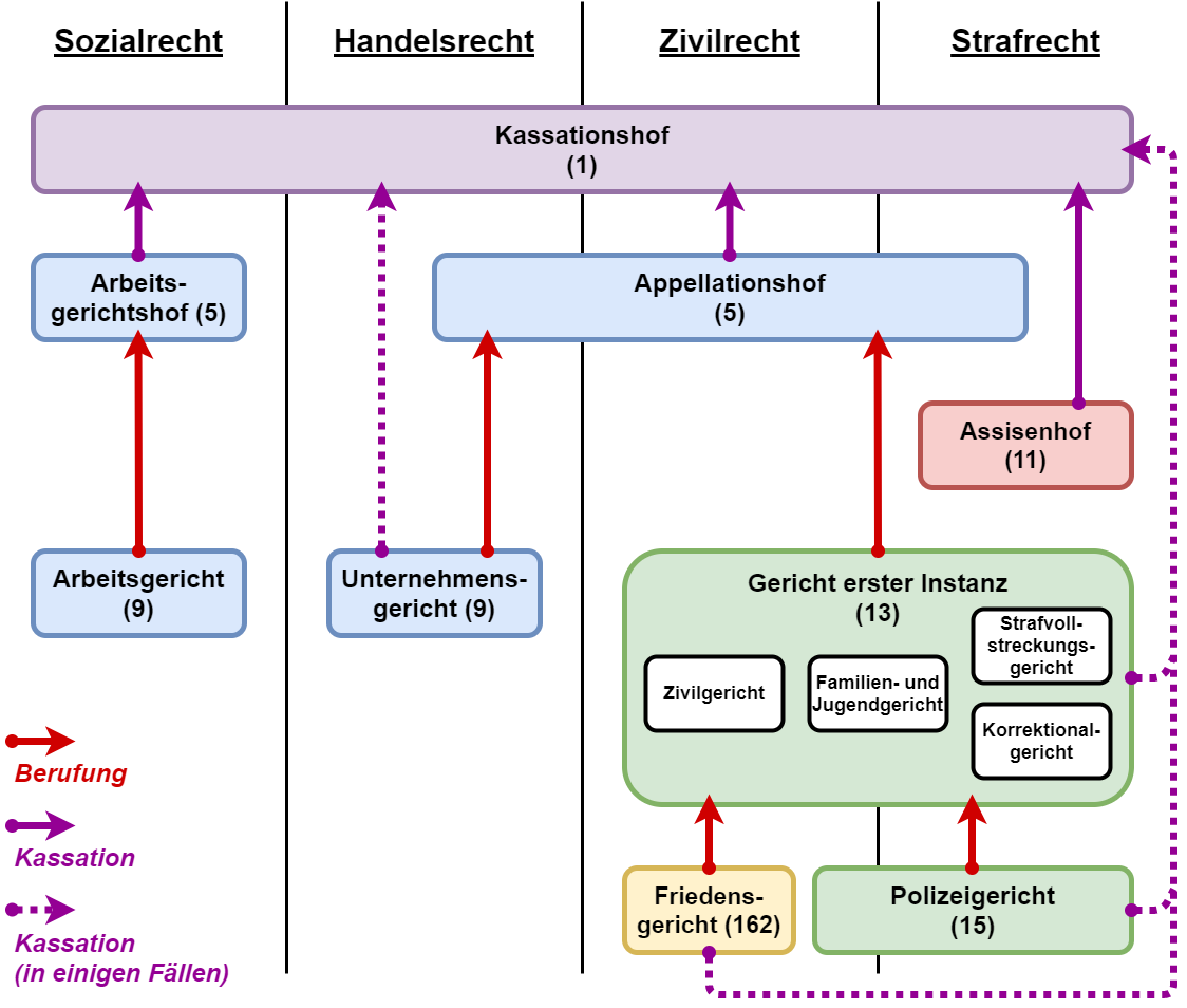 Schematic overview of all Belgian judicial authorities, their hierarchy, the areas of law in which they are competent and the possibilities for higher appeal. Yellow: organized per canton, green: organized per arrondissement ("district"), red: organized per province, blue: organized per judicial area ("ressort") and purple: one for the entire country. Situation as of 2020.